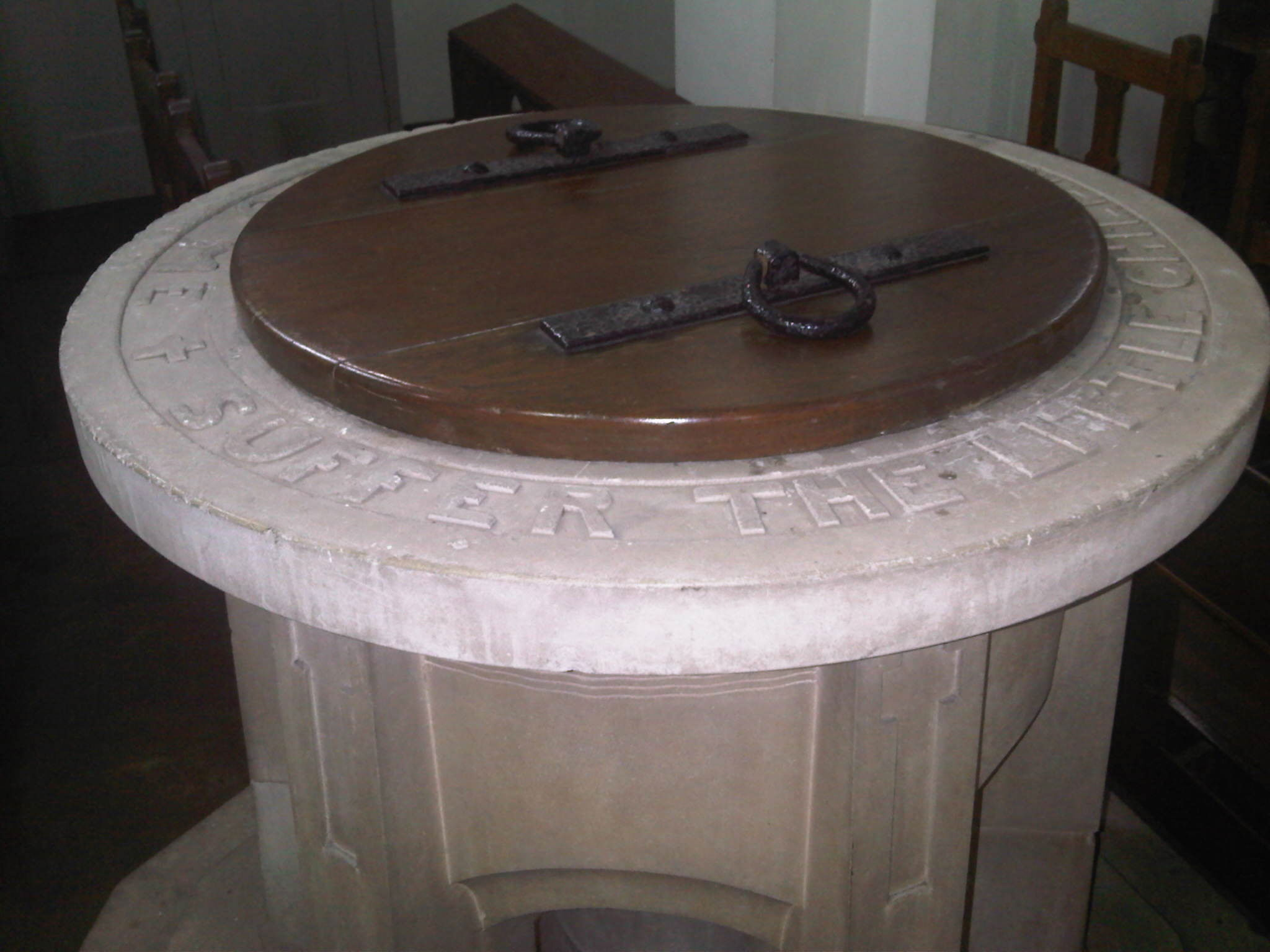 The font at St.Paul's Church Milagiriya, one of the oldest Anglican churches in Sri Lanka.